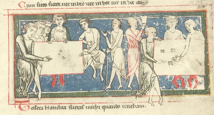 Codex Buranus - miniature on folio 91 - Players